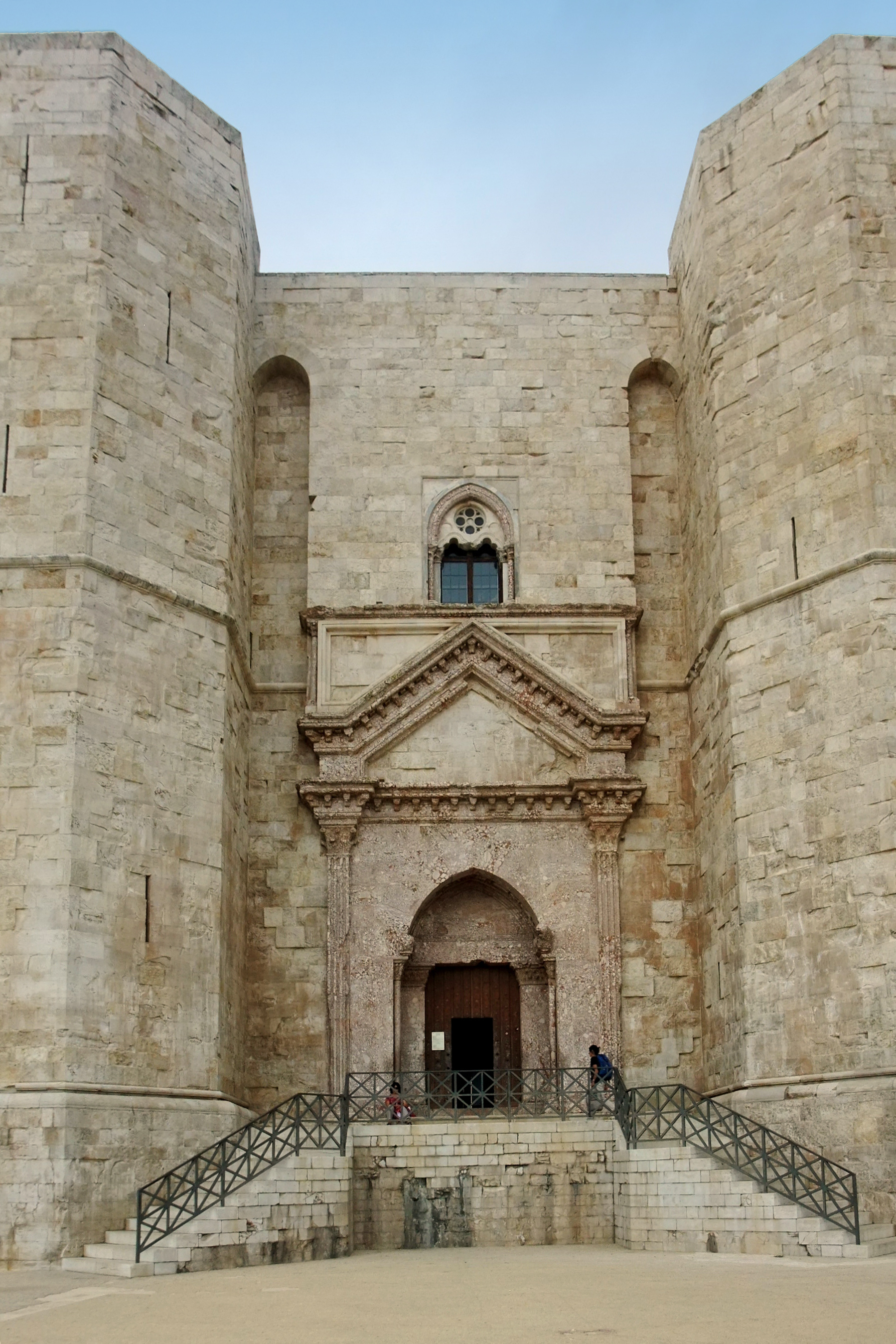 Castel del Monte is a castle in Apulia, southern Italy